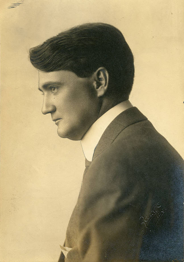 William Winter Jefferson, stage actor Subjects: actors